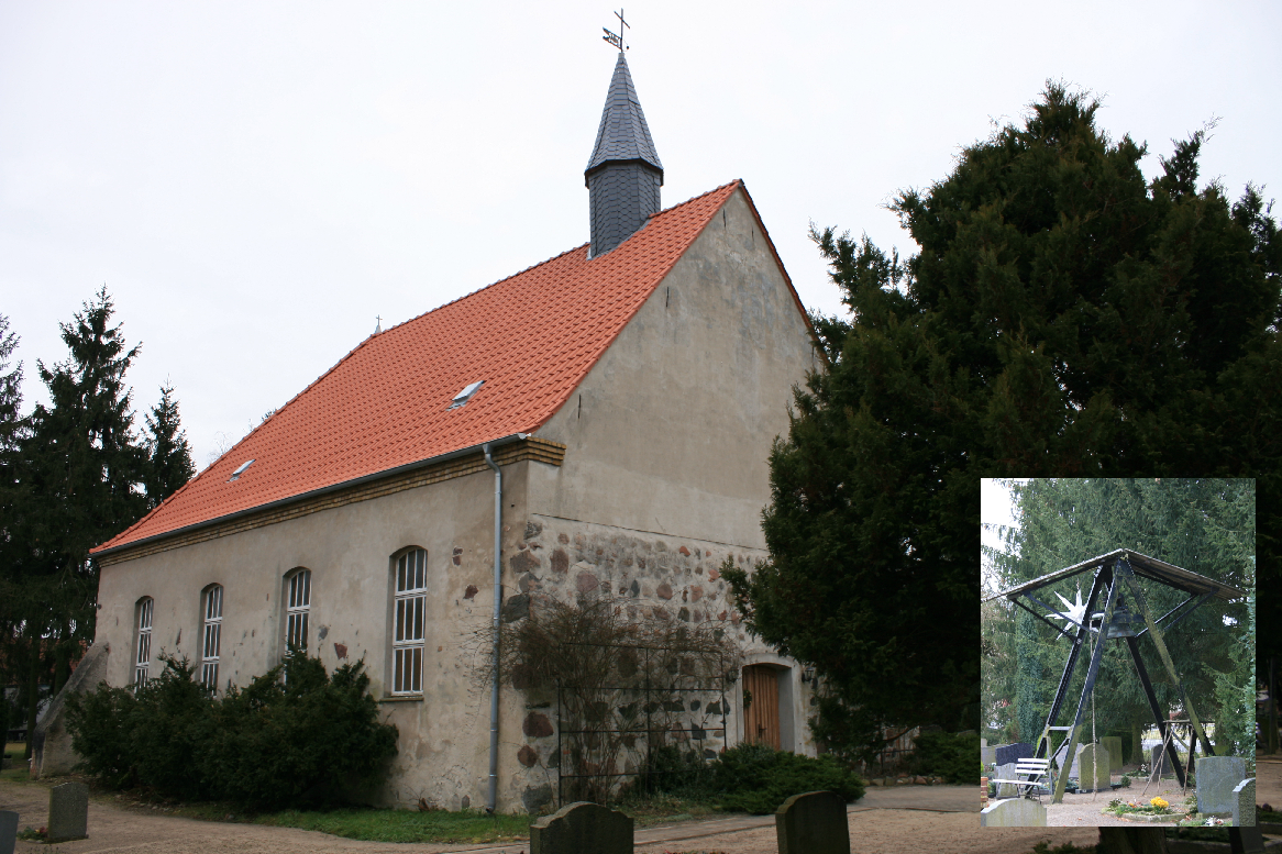 Church in Barnewitz in Brandenburg, Germany